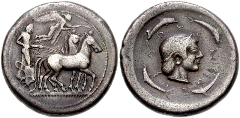 Syracuse tetradrachm, 484-483 BC. Charioteer driving quadriga right; above, Nike flying right, crowning horses / Diademed head of Arethusa right; four dolphins swimming around.